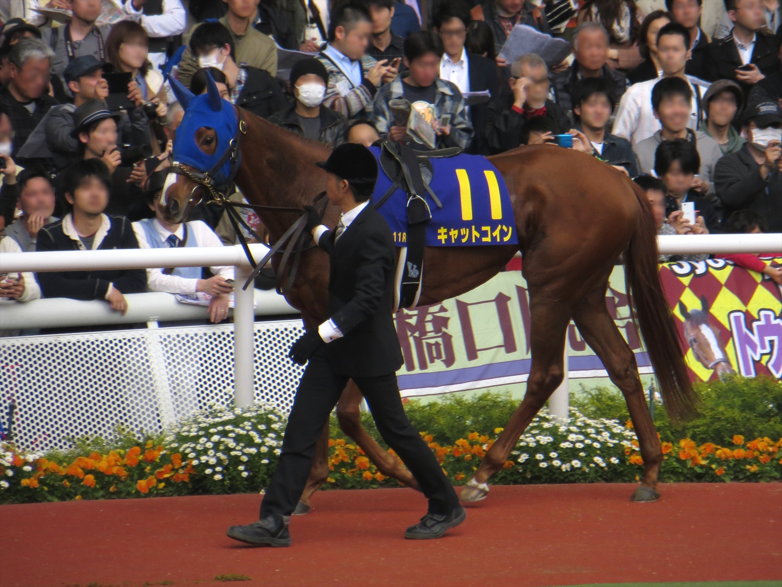 Cat Coin (Racehorse of Japan).